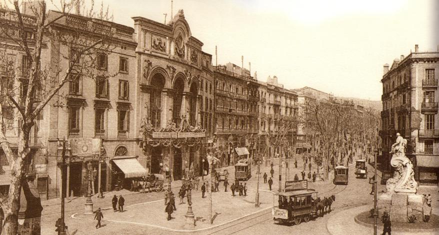 Old façade of Teatre Principal, at Rambla of Barcelona; before the fire of 1915